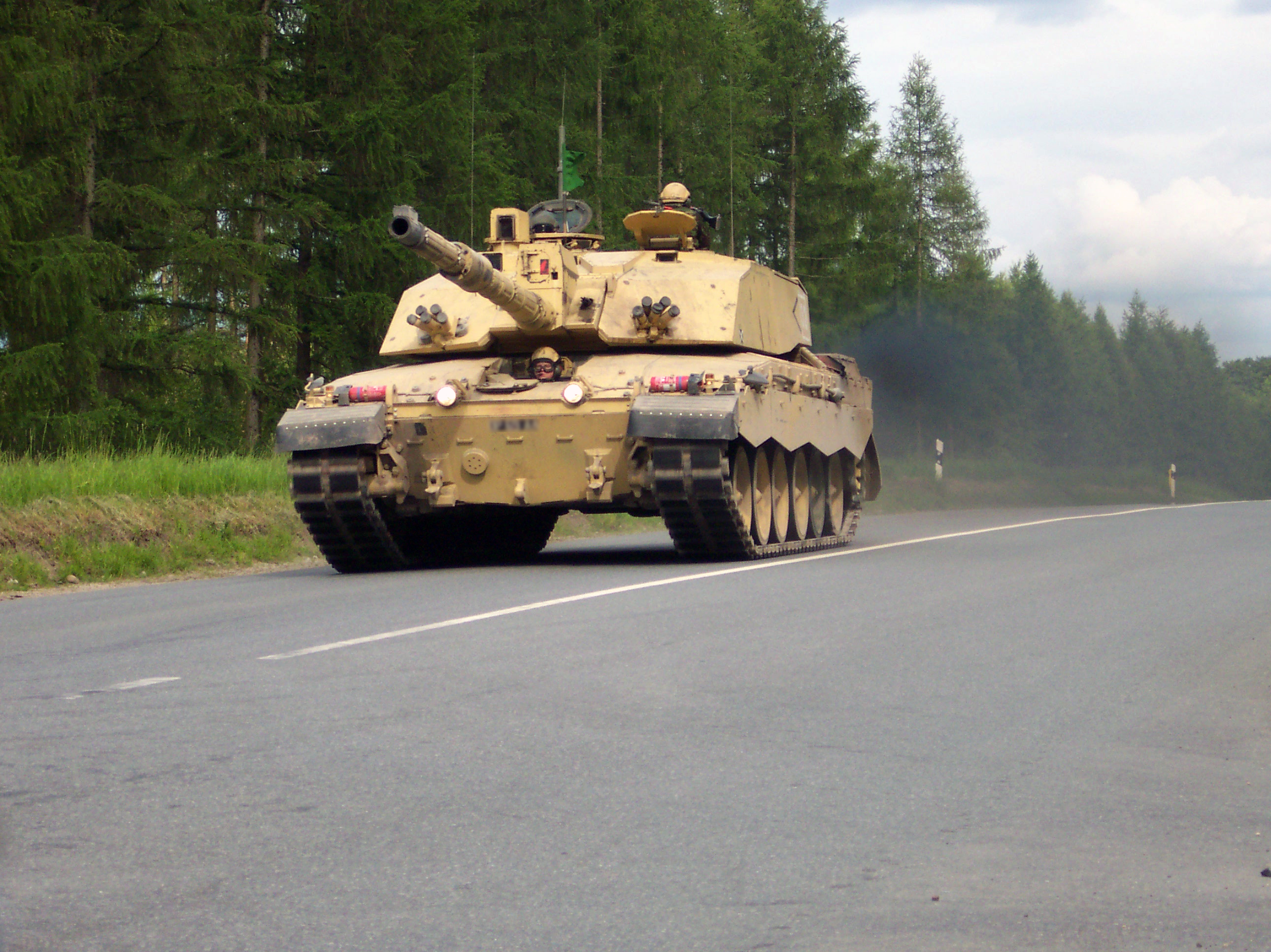 The 2nd Royal Tank Regiment (2 RTR Badger) of the British Army with the MBT Challenger 2 during live fire training exercises in 2004 on Bergen-Hohne Training Area (Lower Saxony, Germany).